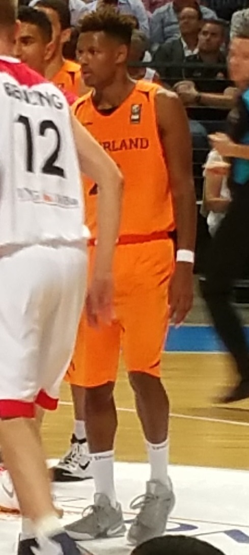 Jessey Voorn during EuroBasket 2017 qualification